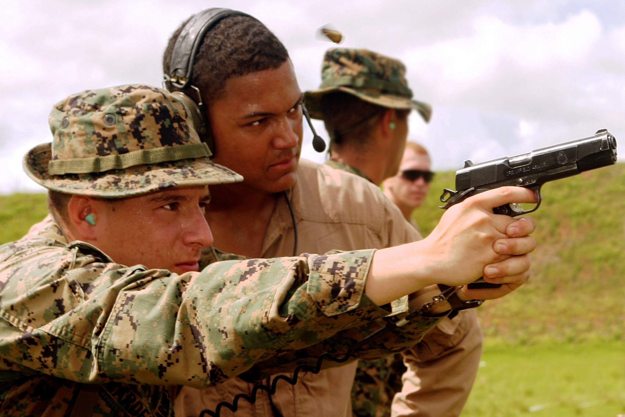 NAVAL COMPUTER AND TELECOMMUNICATIONS STATION, Guam – Corporal Aaron Cardenas (left), a security element team leader of the 31st Marine Expeditionary Unit's, Battalion Landing Team, 1st Battalion, 5th Marine Regiment, fires the MEU Special Operations Capable .45-caliber pistol as Corporal Aaron Hyman (right), a Deep Reconnaissance Platoon team leader with the MEU, coaches at the range here August 16 during a close quarters battle firing drill. Close quarters battle involves engaging the enemy in confined spaces with an undetermined number of targets. These techniques practiced are most likely to be employed during maritime operations that allow the MEU to function successfully as a quick-reaction force while forward deployed.